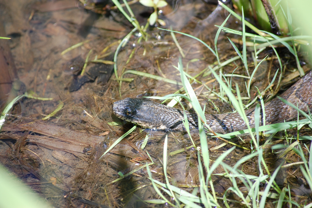 Brown watersnake, Lycodonomorphus rufulus